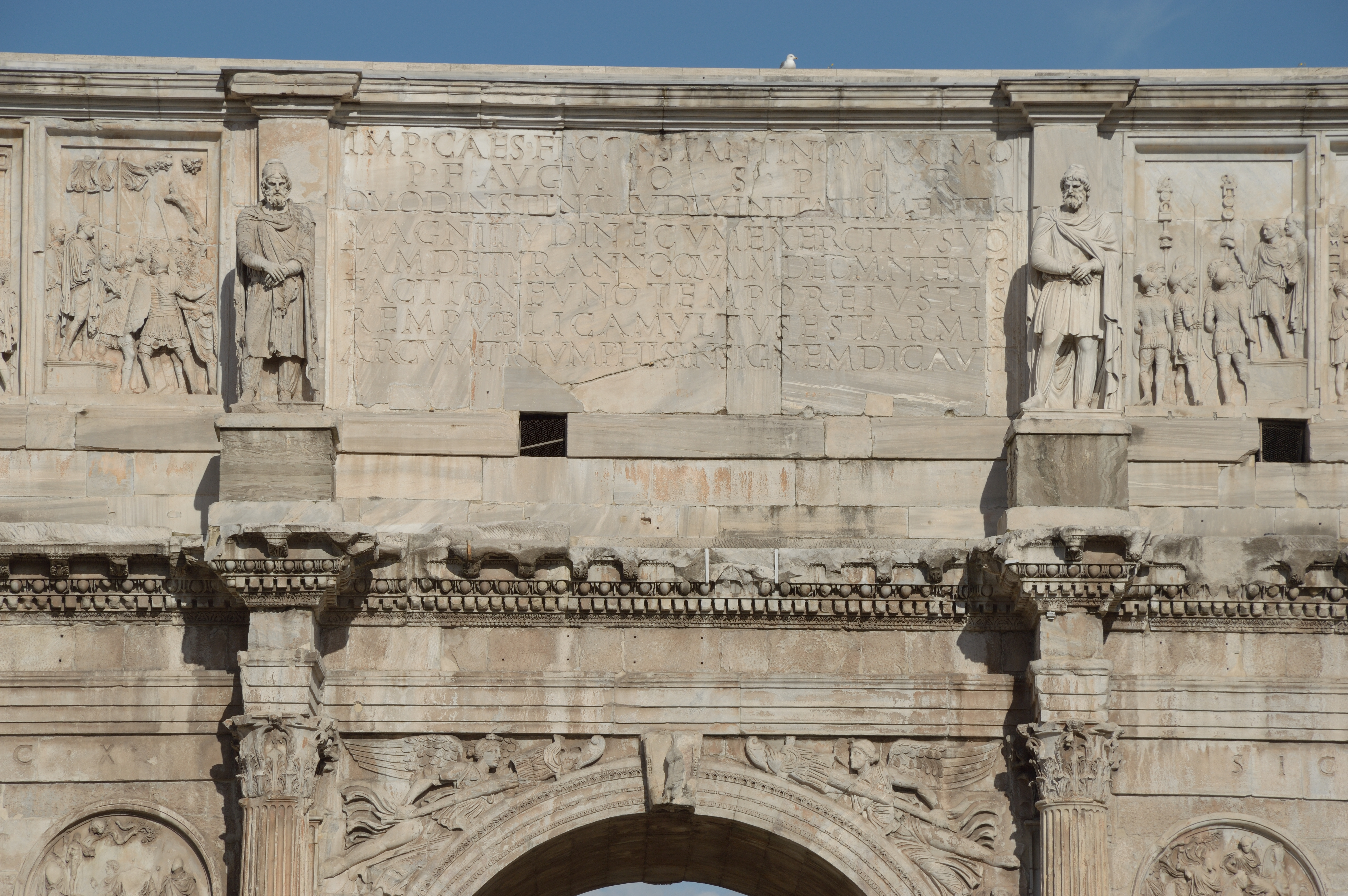 Arch of Constantine,center up